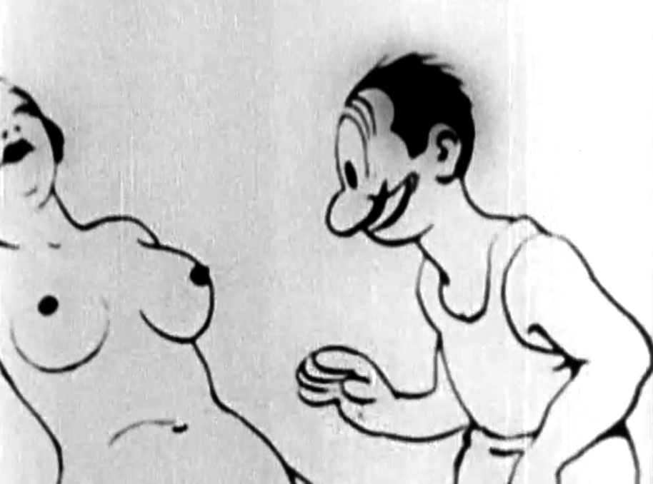 An image from the pornographic cartoon Eveready Harton in Buried Treasure, created by a group of anonymous animators.